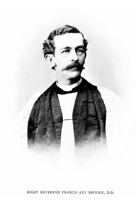 The Rt. Rev. Francis Key Brooke, Episcopal missionary bishop to Oklahoma, 1893 to 1911.